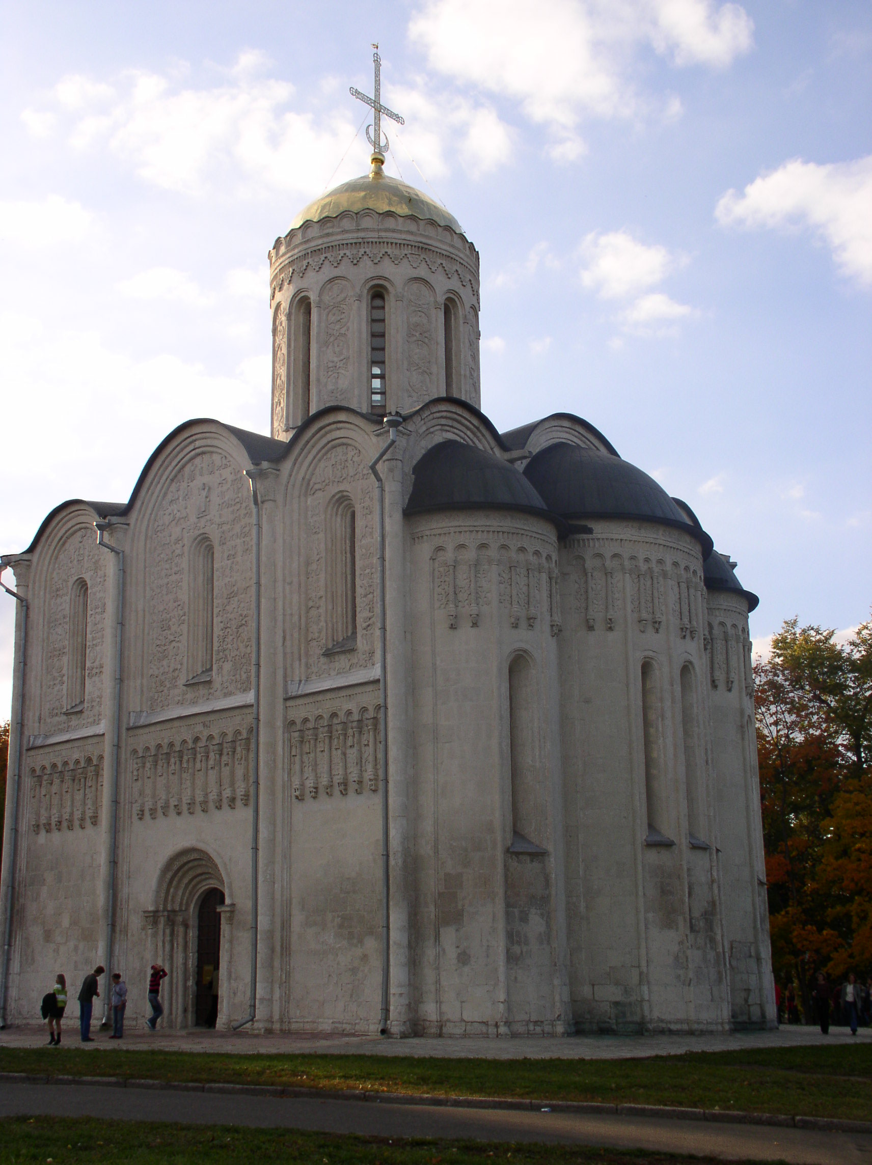 Cathedral of Saint Demetrius. Vladimir, Russia.